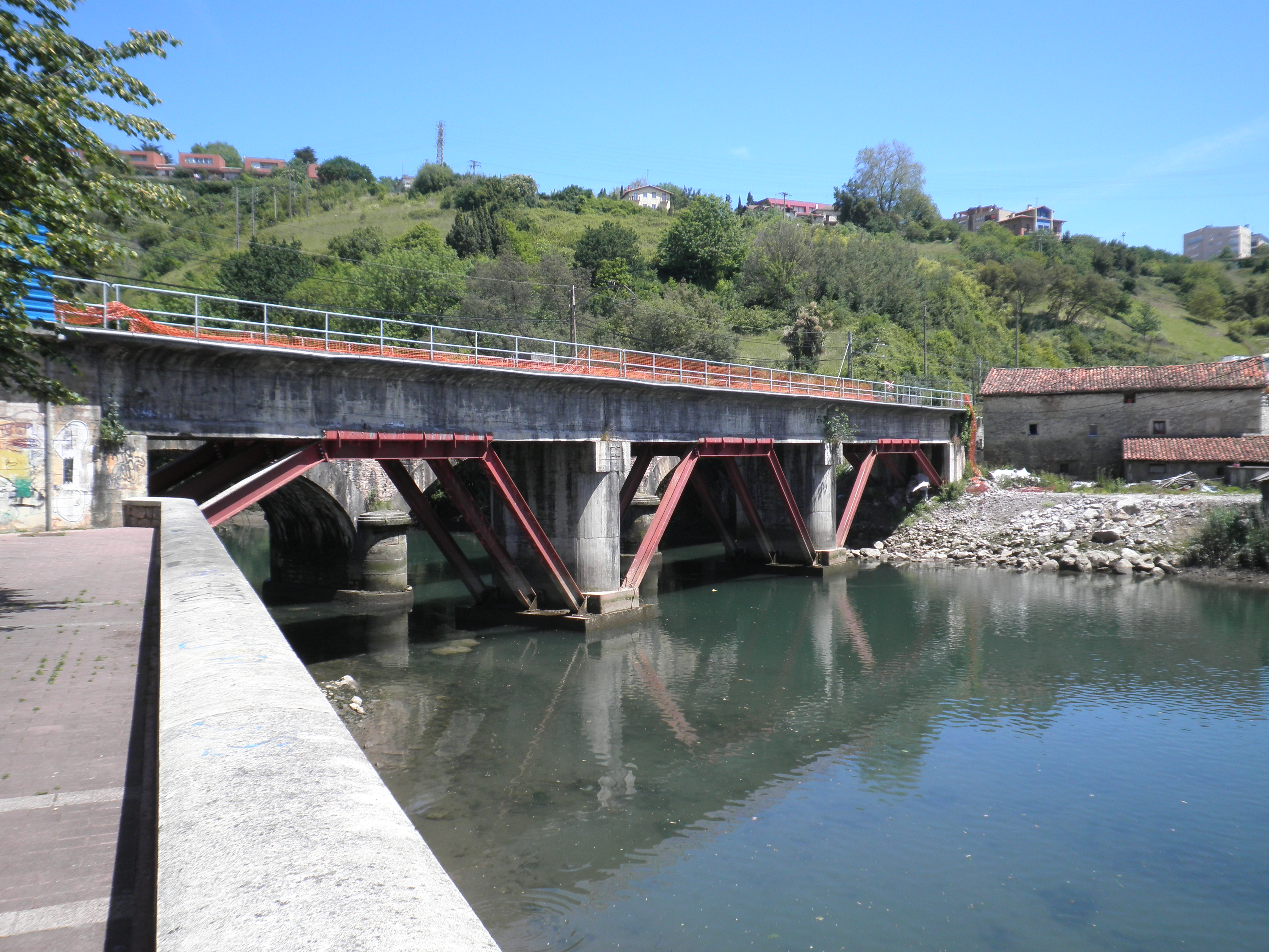 Train bridge in Loiola, Donostia.